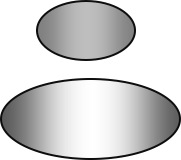 This is a cartoon of cell localization of Pom1 at different stages.